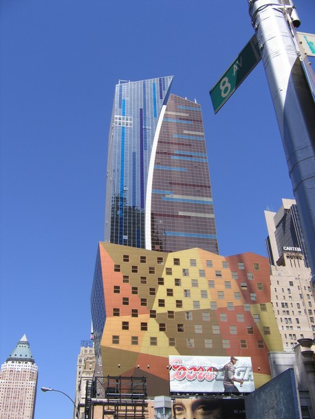 Looking northeast from 42nd Street in New York NYC USA